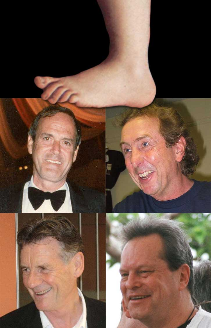 A collage of four of the six members from Monty Python, and the famous foot used in Flying Circus